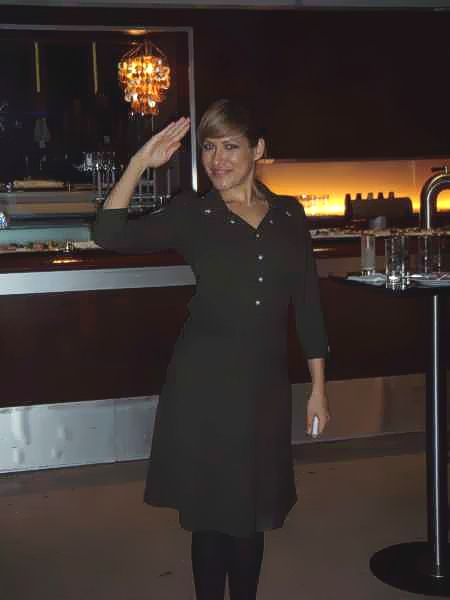 Ex-"No Angels"-Member Vanessa Petruo